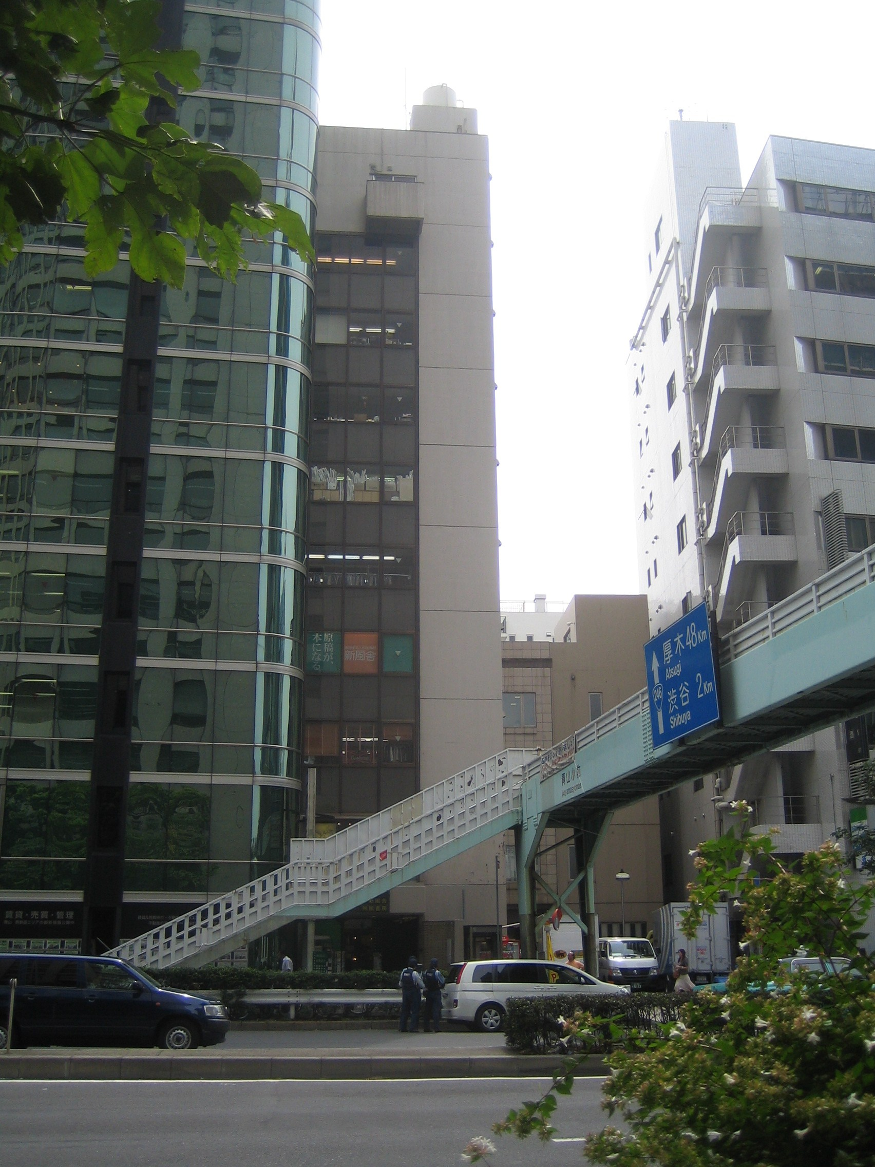 Kawakami Building (川上ビル), located at Minami-Aoyama, Minato, Tokyo, Japan. The headquarters of Singpoosha (新風舎 Shinpūsha) is in this building.